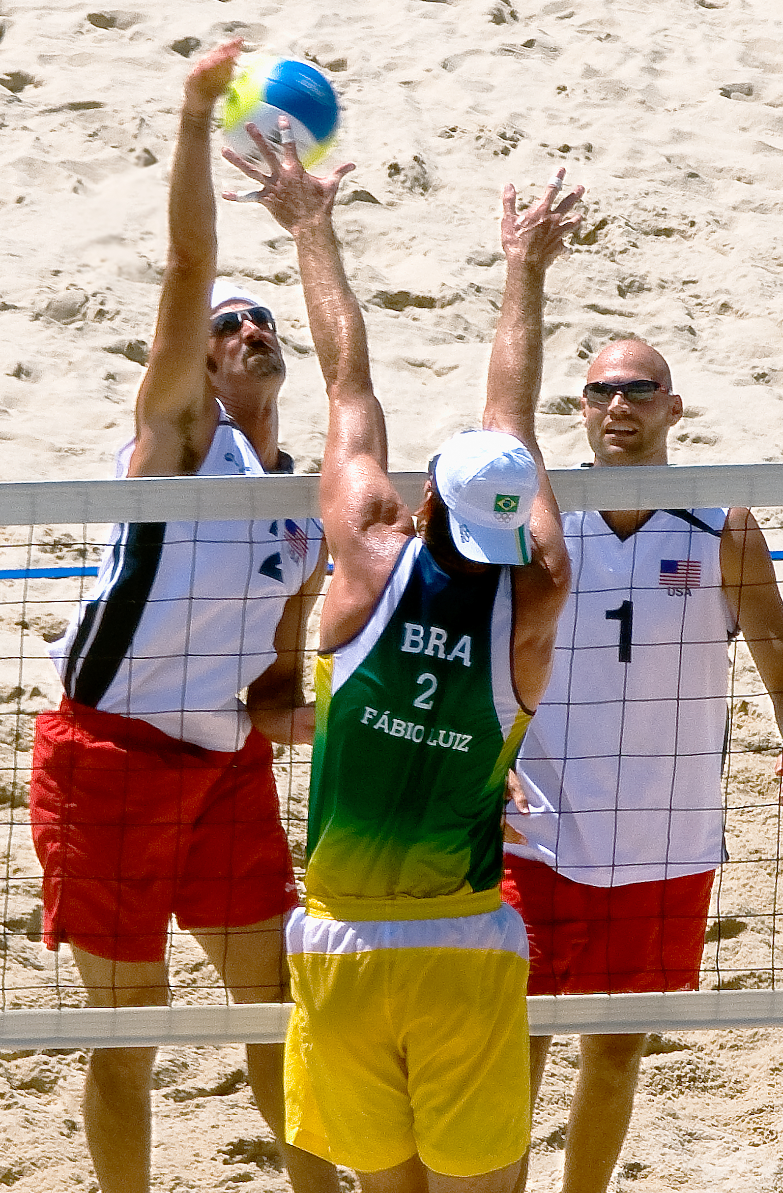 Team USA vs. Team Brazil in the Men's Beach Volleyball gold medal match at the Beijing Olympics.